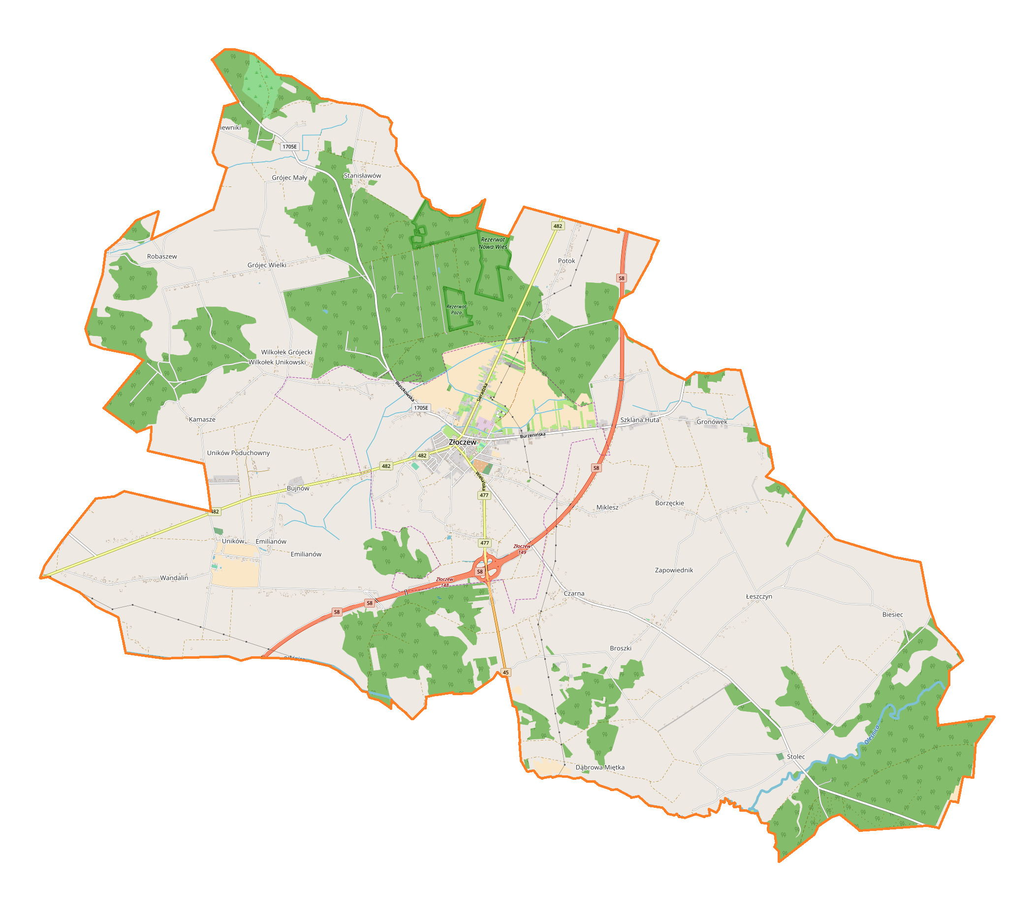 Location map